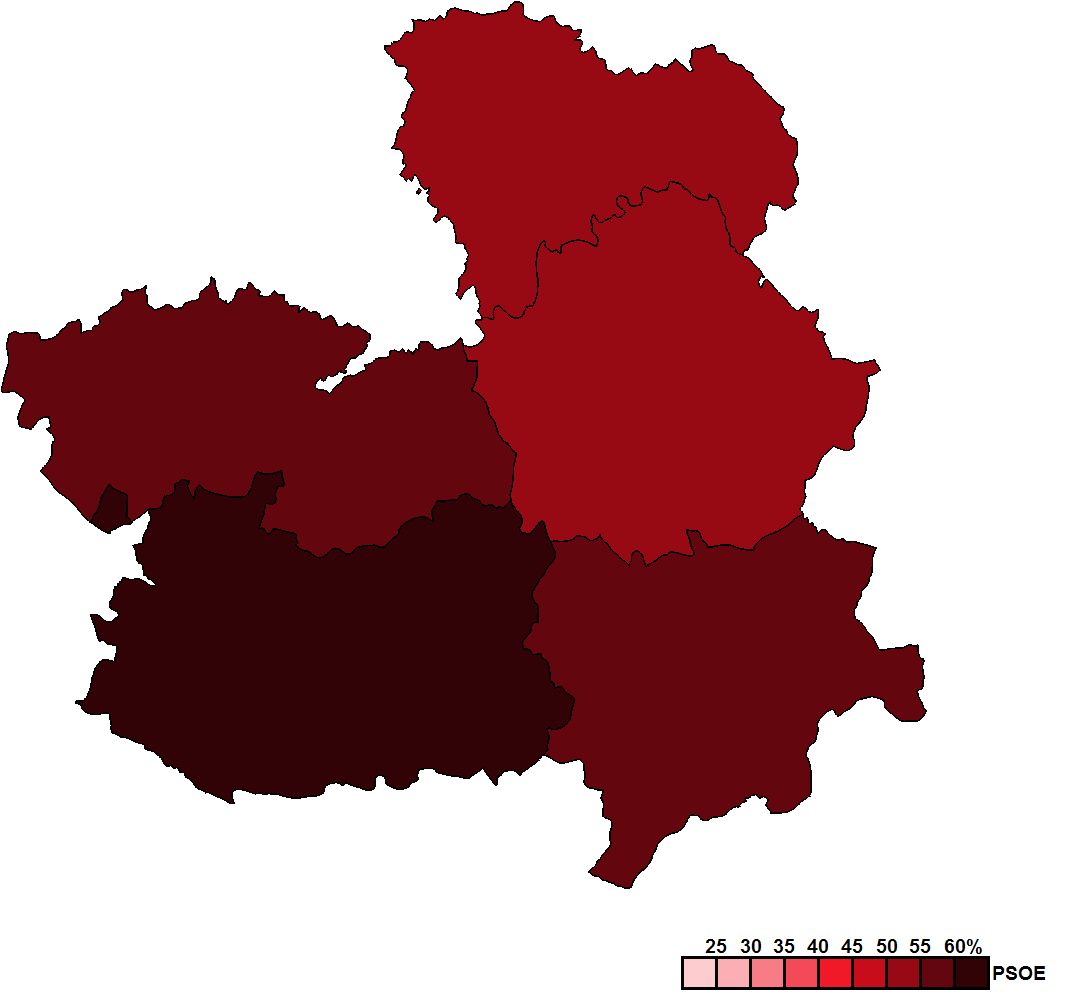 Provincial results for the 2003 Castilian-Manchegan regional election.